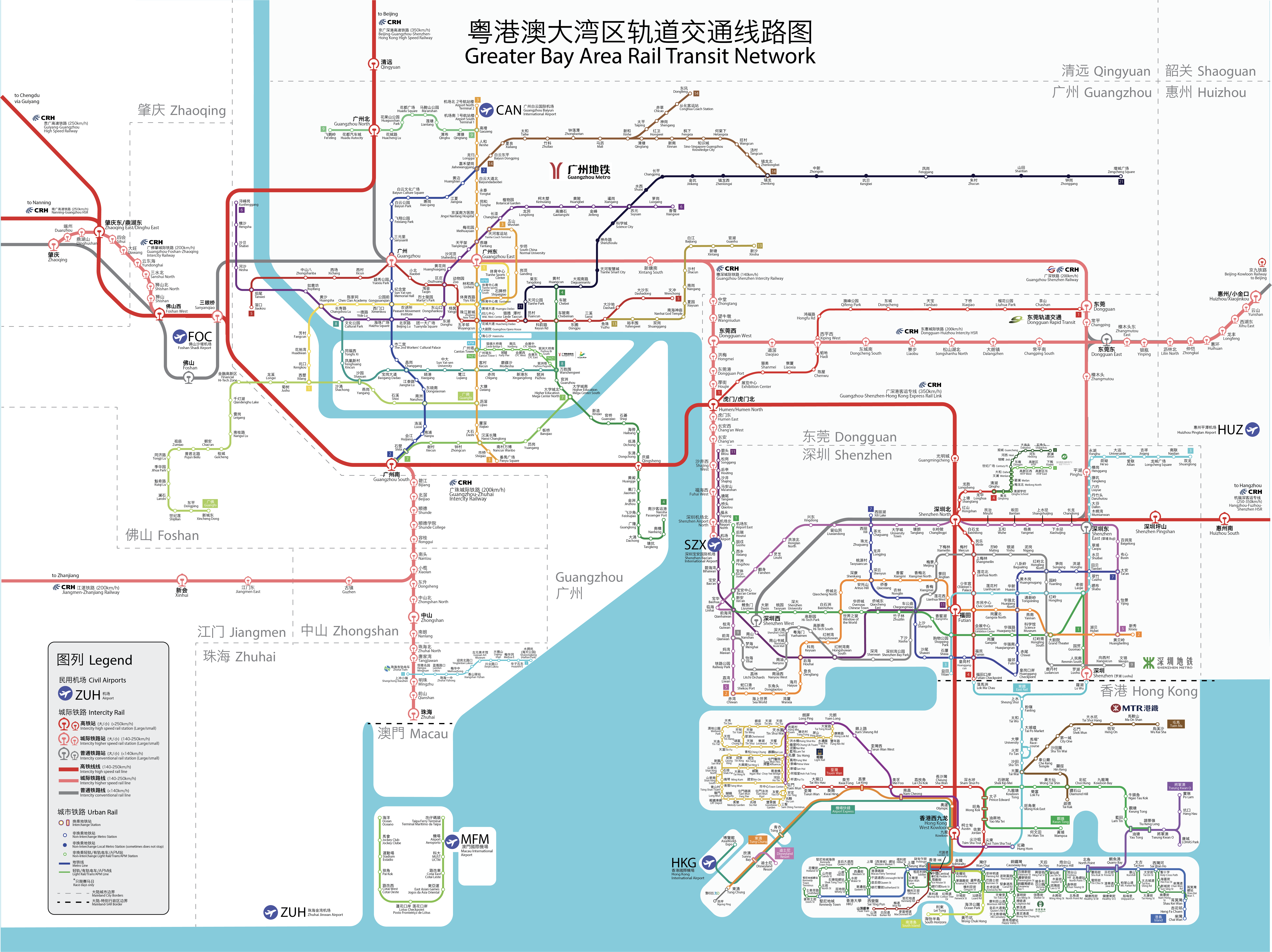 Guangdong-Hong Kong-Macau Bay Area transit network (Pearl River Delta Metro Region), including high speed, higher-speed, and conventional intercity rail, in addition to metro and light rail/APM/tram services in Hong Kong, Macau, and southern-central Guangdong.